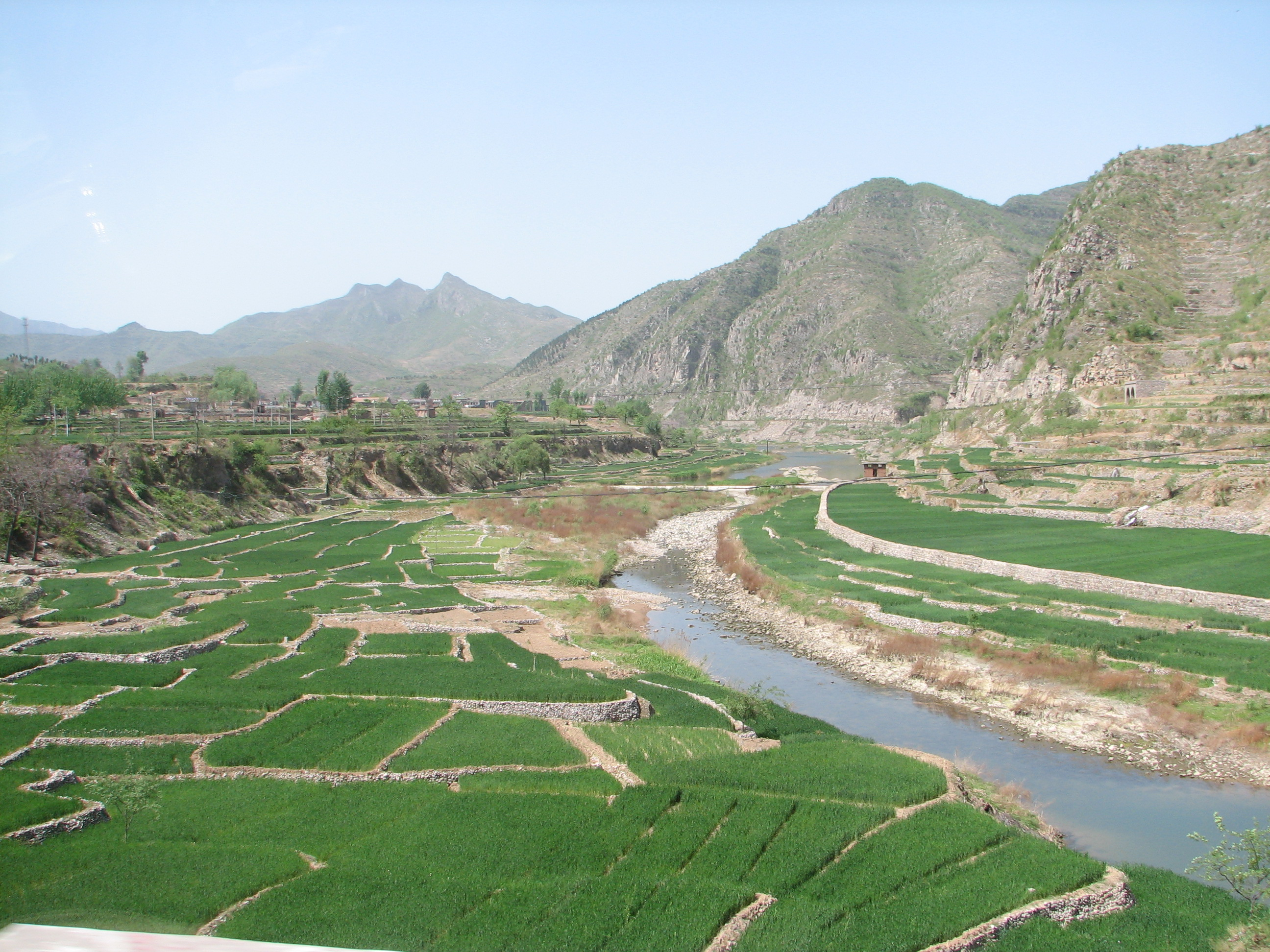 Zhang River near Red Flag Canal, Henan, China